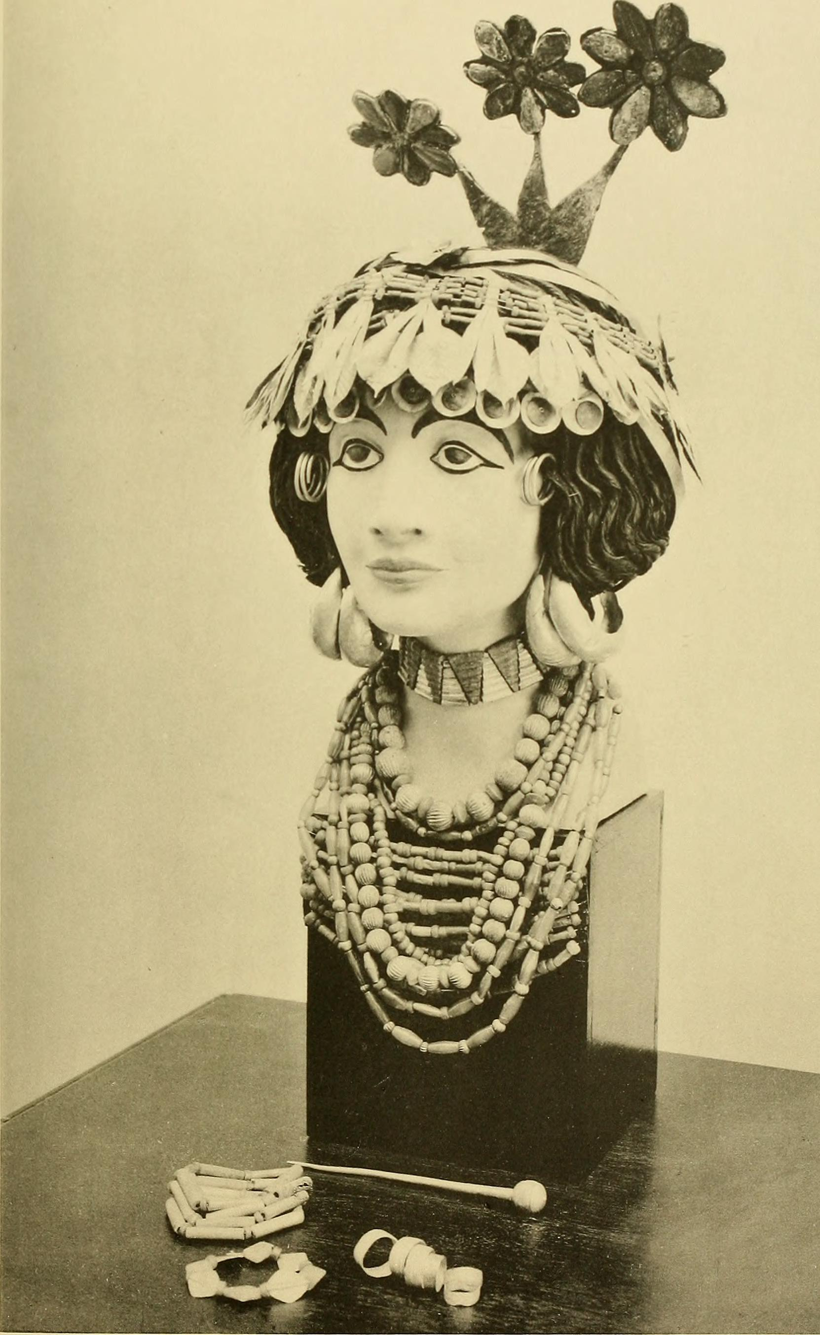 Title: Ur excavations Year: 1900 (1900s) Authors: Joint Expedition of the British Museum and of the Museum of the University of Pennsylvania to Mesopotamia Hall, H. R. (Harry Reginald), 1873-1930, ed Woolley, Leonard, Sir, 1880-1960 Legrain, Leon, 1878- ed Subjects: Publisher: (n.p.) Pub. for the Trustees of the Two Museums by the aid of a grant from the Carnegie Corporation of New York Text Appearing Before Image: e. U. 17887. FG/1850. FIRST DYNASTY COPPER BULLS HEAD V. p. 212, 215 PLATE 144 Text Appearing After Image: Scale c. J PG/1237. U. 13380. HEAD-DRESS OF A WOMAN (BODY 61) FROM THE GREAT DEATH-PIT V. PI. 135, and pp. 120, 240 PLATE 14s